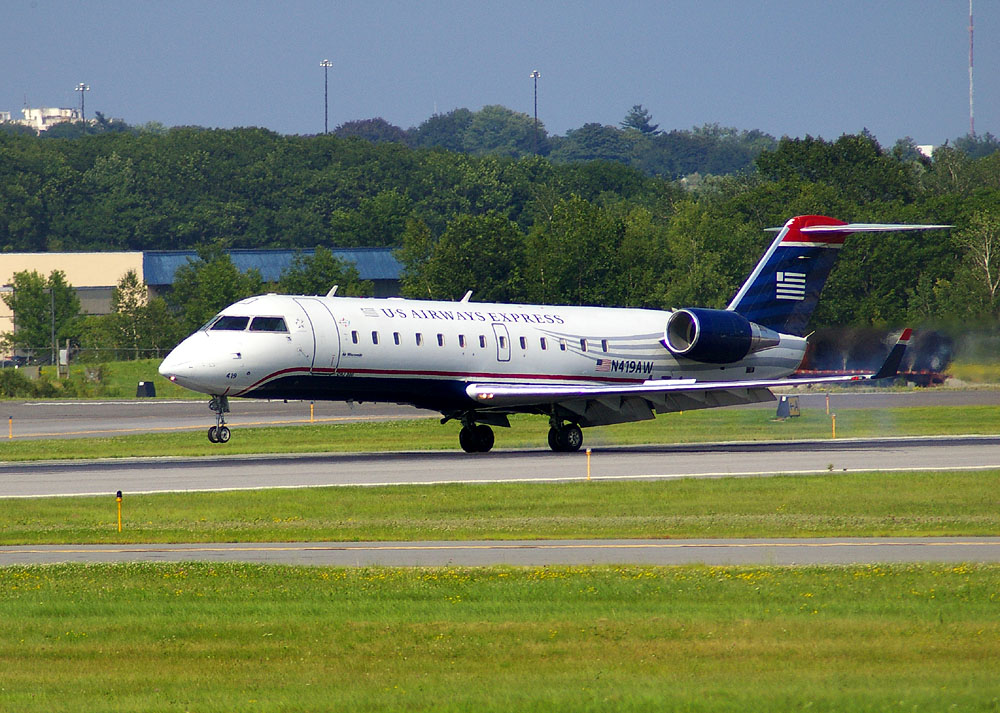 US Airways Express (Bombardier CRJ200) at Portland International Jetport.